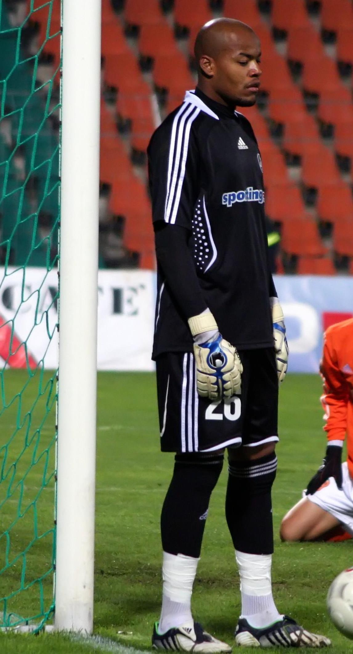 Raïs M'Bohli